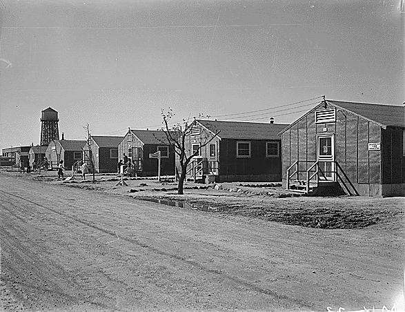 Minidoka War Relocation Center, Idaho, USA. Barracks including administrative buildings.